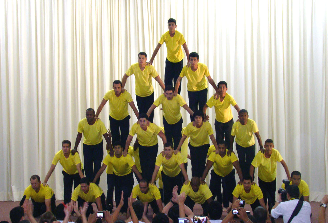 Catalonina type 6 layers human pyramid performed on July 7, 2013, at Rio de Janeiro Culture Centre of BSGI